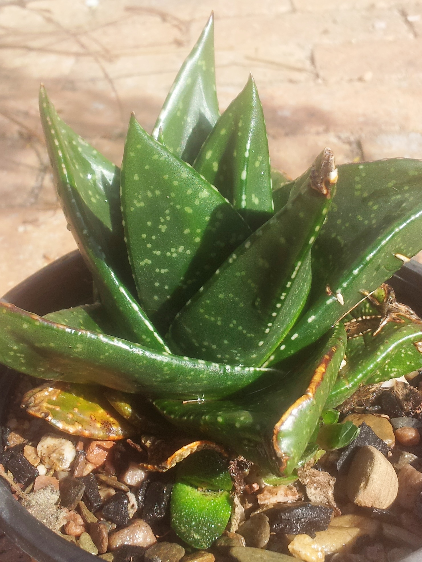 Gasteria nitida var nitida - typical form in cultivation - showing adult form in main rosette and juvenile distichous form in the offsets at the base.